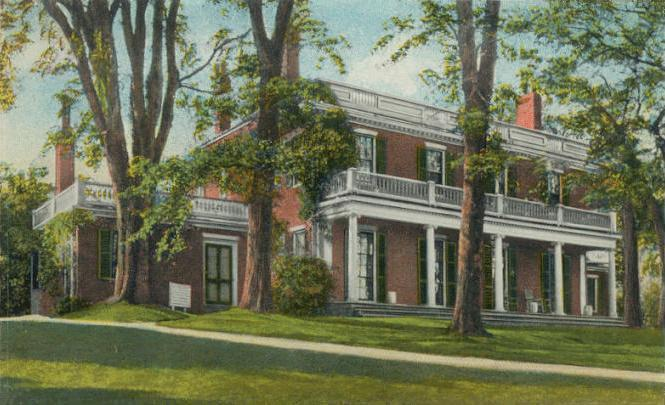 Colonel John Black House, Woodlawn Museum, Ellsworth, ME; from a c. 1922 postcard published by the American Art Colored Postcard Company. Built between 1824-1827, the mansion is based on Plate 54 of The American Builder's Companion, a design handbook published in 1806 by architect Asher Benjamin.